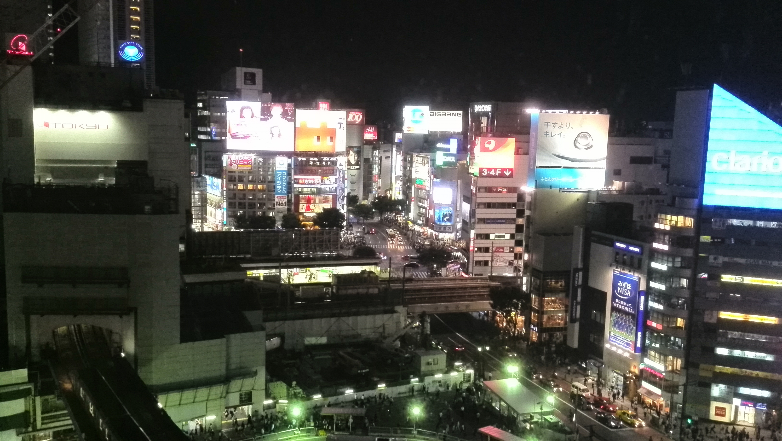 Shibuya, Tokyo, Japan.